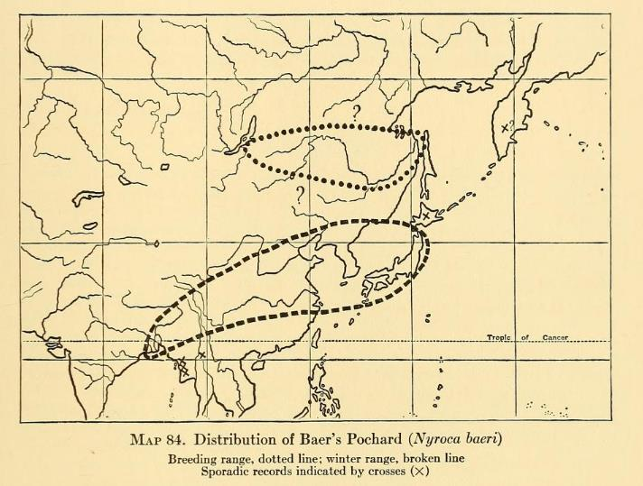 Aythya baeri, historical range as known is 1925